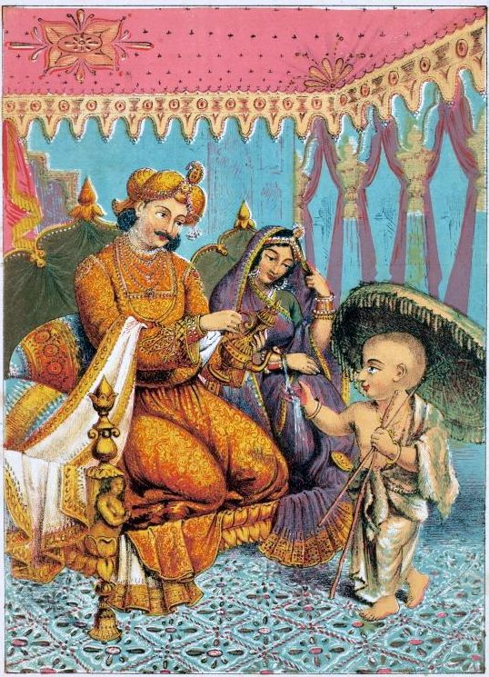 Vamana Avatar - Calcutta Art Studio, calcutta (Kolkata) c1880's